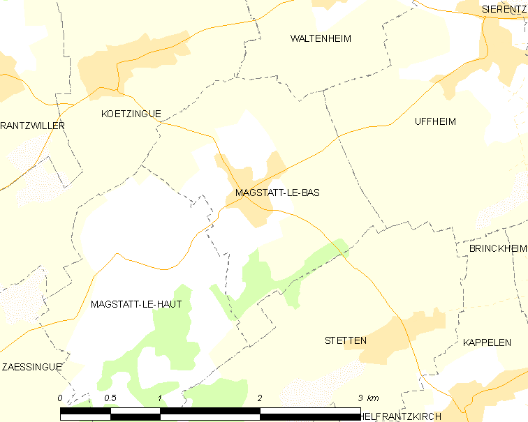 Map of French municipality